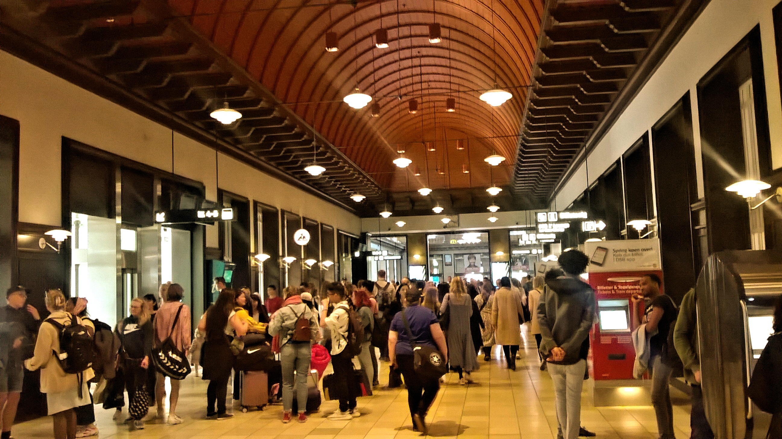 Aarhus Hovedbanegård Maj 2019